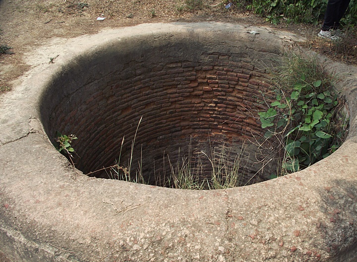 Water Well Made by Raja Lone Singh of Mitauli, District Kheri, India